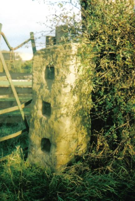 The limestone stile gatepost at Wester Kittochside Farm near Carmunnock in Glasgow.